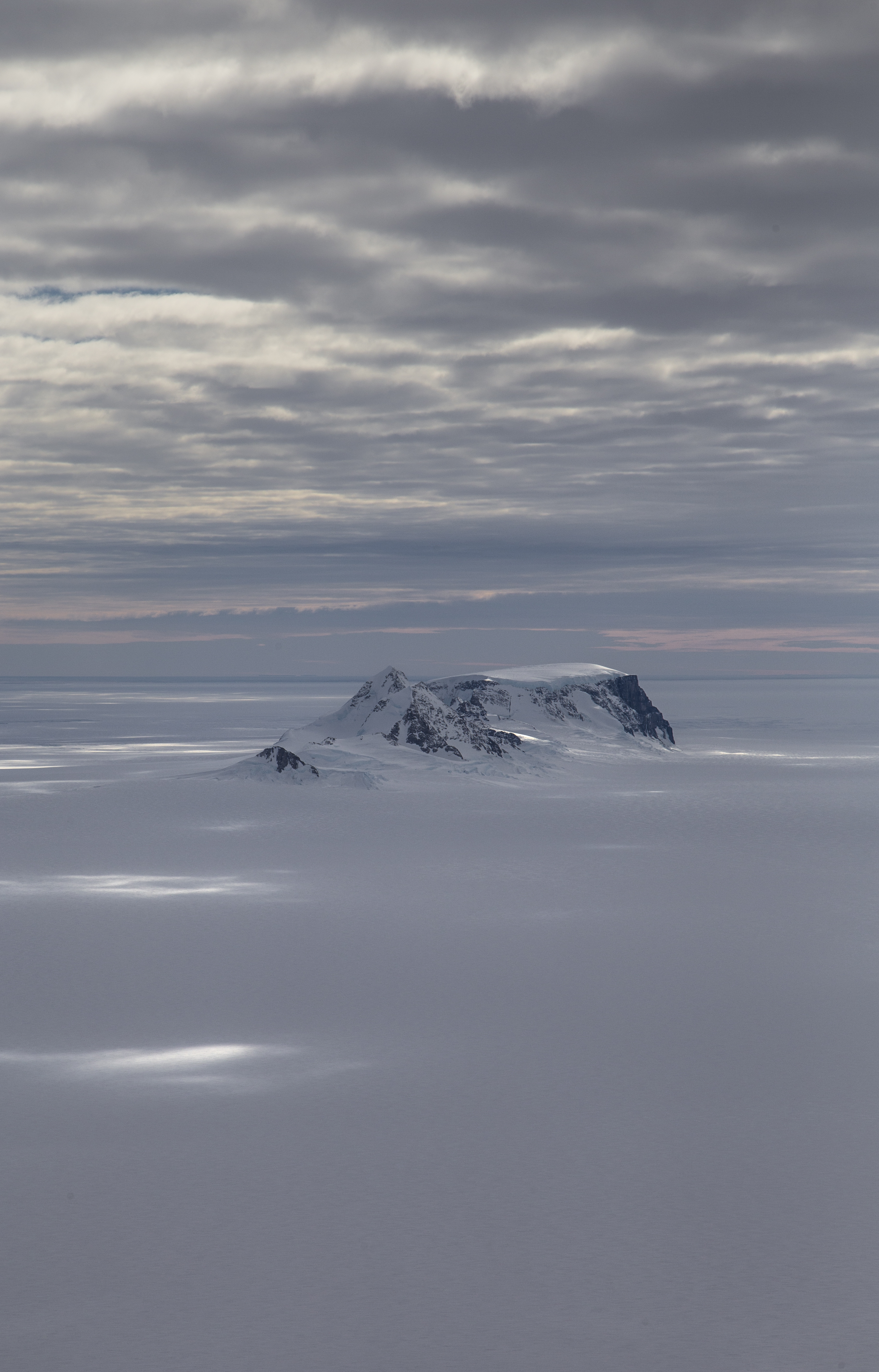 The Perry Range on the coast of Marie Byrd Land, W. Antarctica. Photo taken during Operation IceBridge's "Hull-Land 3" mission on Nov. 2, 2016. (NASA/Jeremy Harbeck)